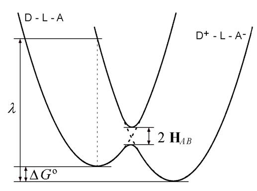 Made by Michael Holman